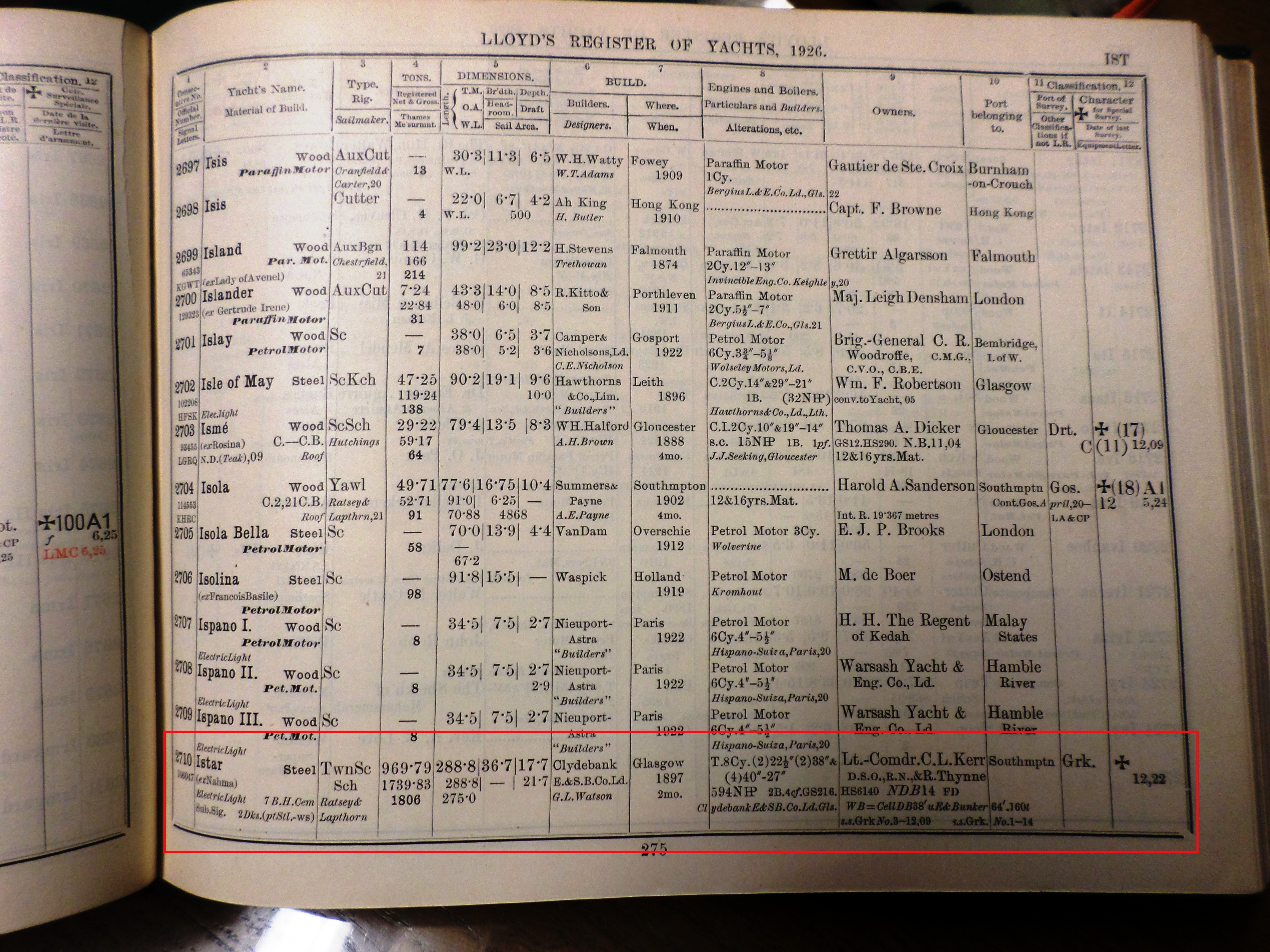 Lloyds yacht register 1926 giving description of Istar and details of owners